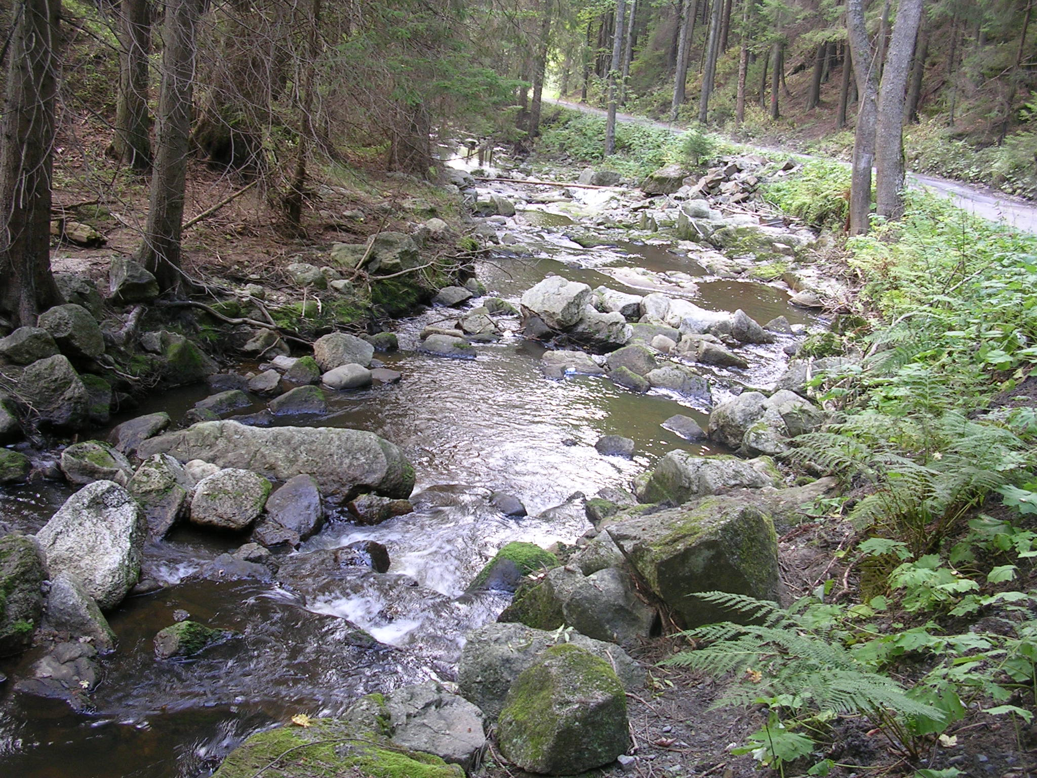 Pohorská Ves, South Bohemian Region, the Czech Republic.